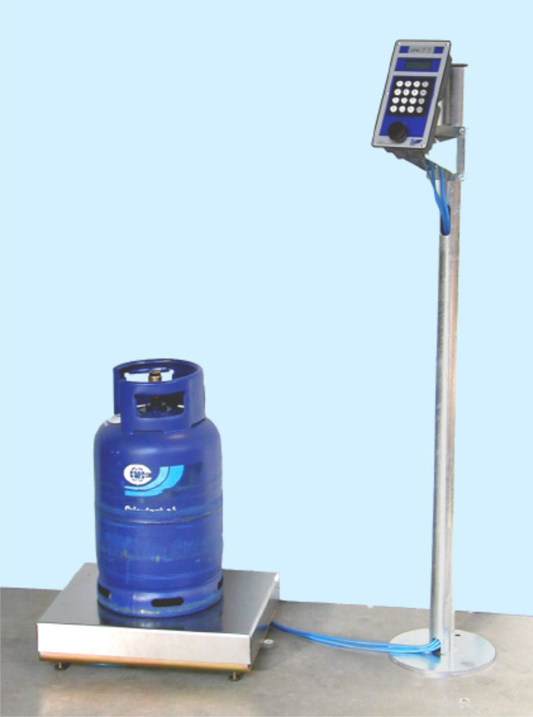 Стационарные контрольные весы для установки на полу